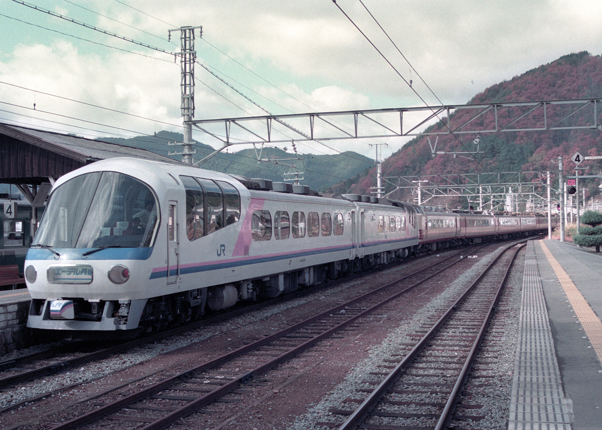 JR West KiHa 65 DMU and 183 series EMU on a combined "Edel Tango" and "Kitakinki" service